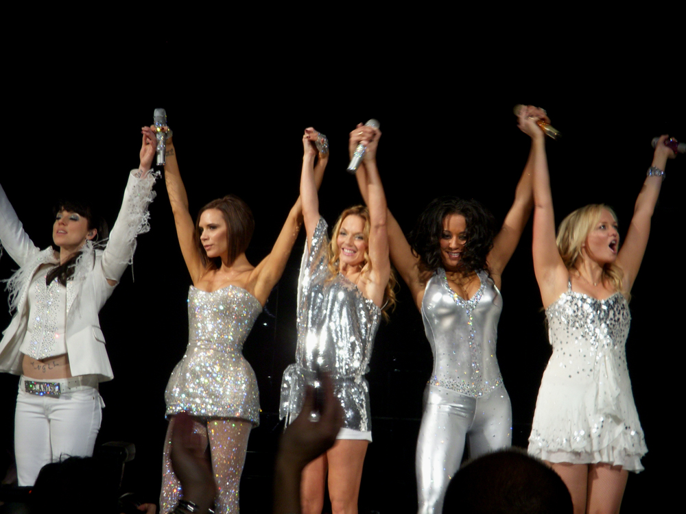 Spice Girls performing in Toronto, Canada